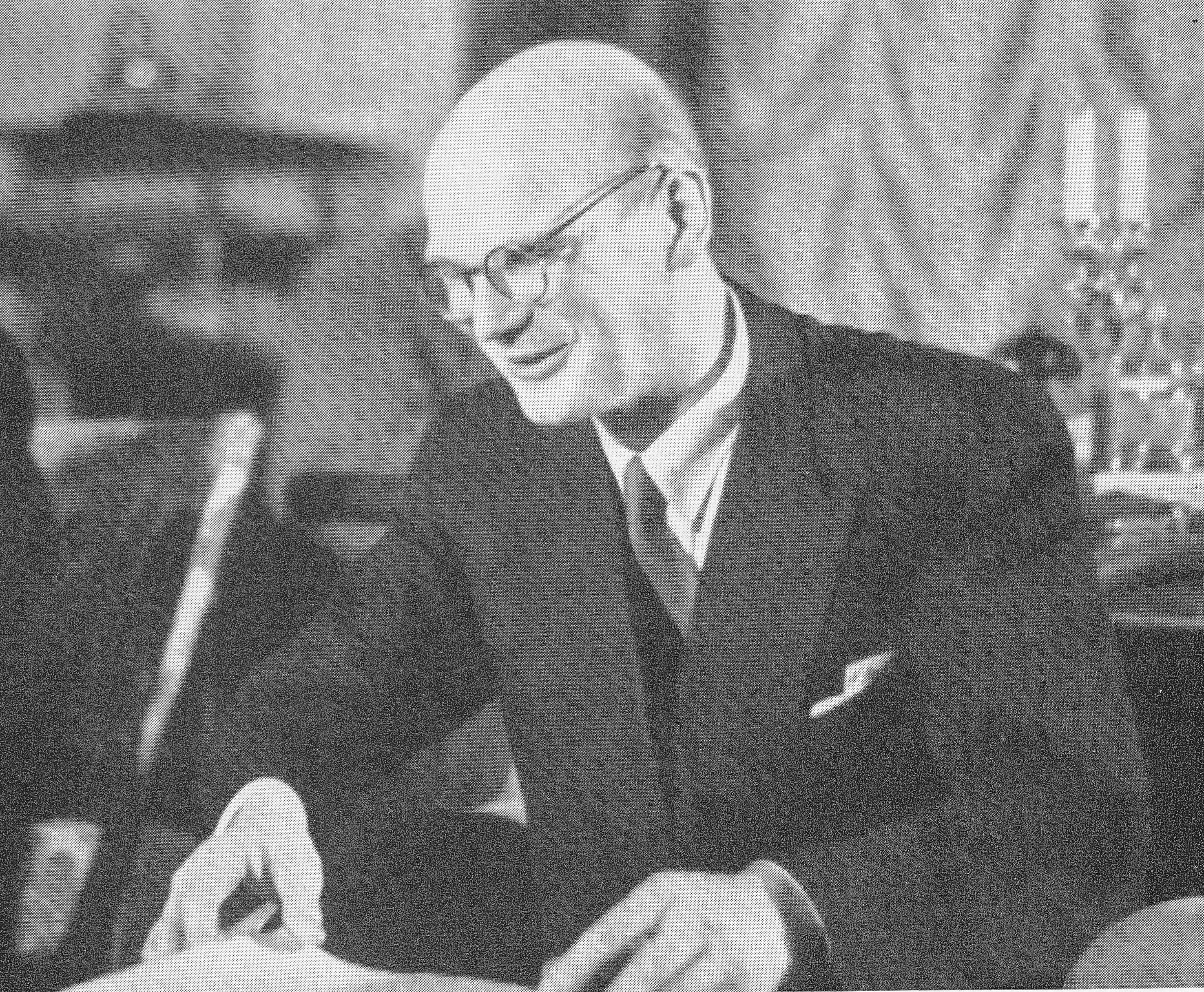 Urho Kekkonen in ýear 1945